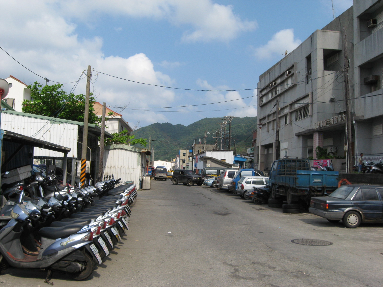 Main road going through the Imorod (紅頭) village of Orchid Island (蘭嶼 Lanyu).